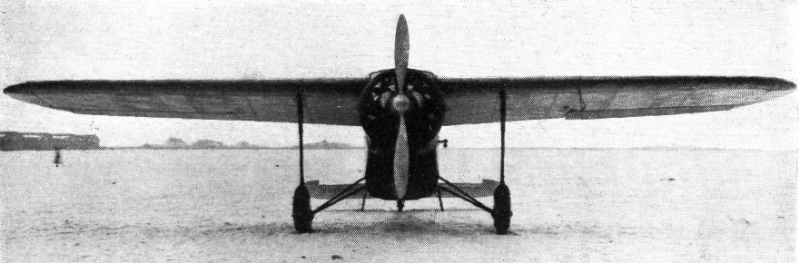 PWS-54, Polish 3 seat transport aircraft, 1933 - front view